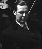 Maurice J. Tobin, Mayor of Boston